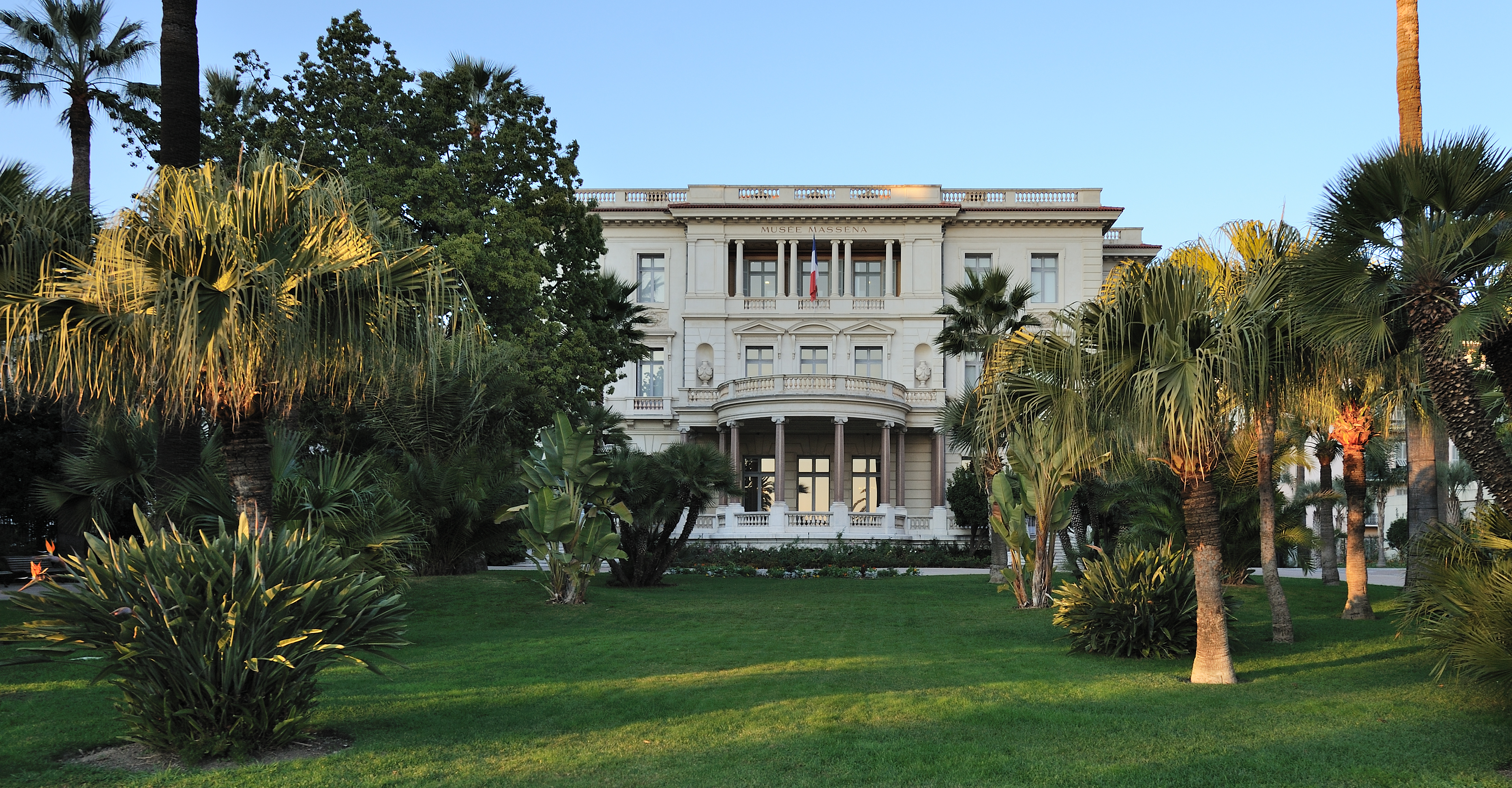 The Musée Masséna in Nice